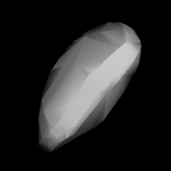 3D convex shape model of 1983 Bok, computed using light curve inversion techniques. J. Hanuš, J. Ďurech, M. Brož, B. D. Warner (June 2011). "A study of asteroid pole-latitude distribution based on an extended set of shape models derived by the lightcurve inversion method". Astronomy and Astrophysics 530: A134. ISSN 0004-6361. arXiv